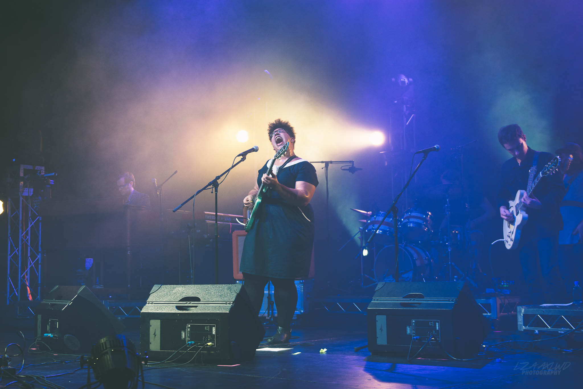 Alabama Shakes at the Mercedes Benz Evolution Tour. Barker Hangar, Santa Monica November 2014